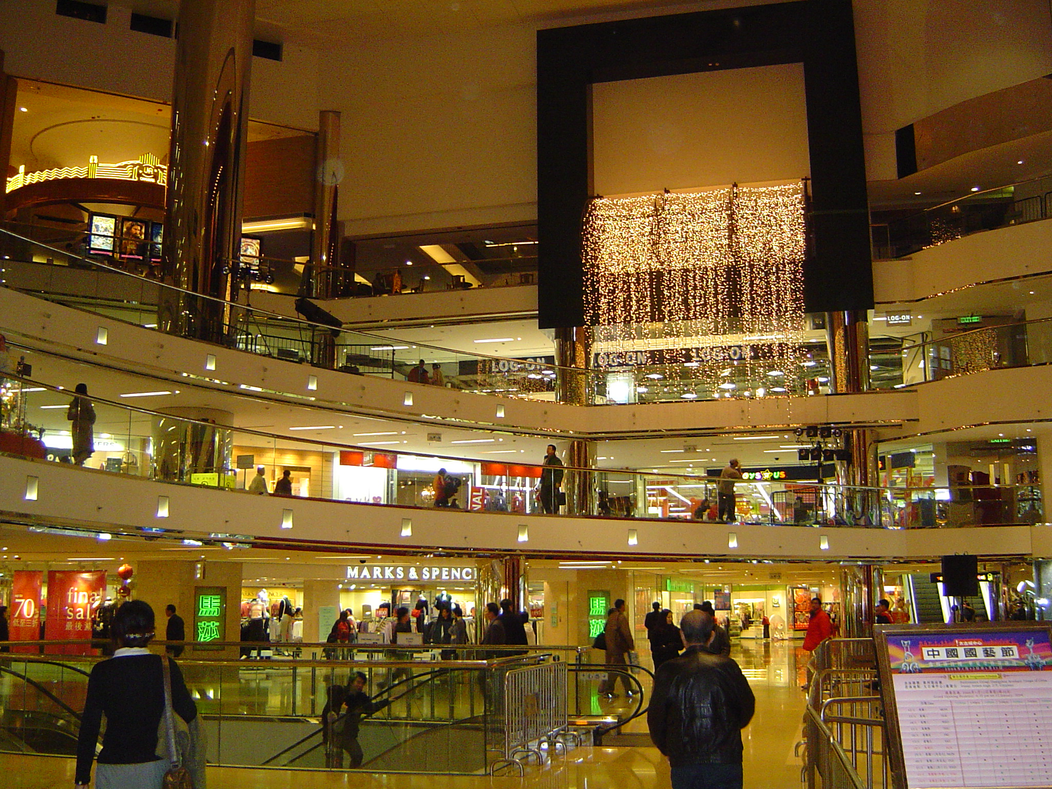 Interior look of Cityplaza located in Taikoo Shing, Hong Kong.